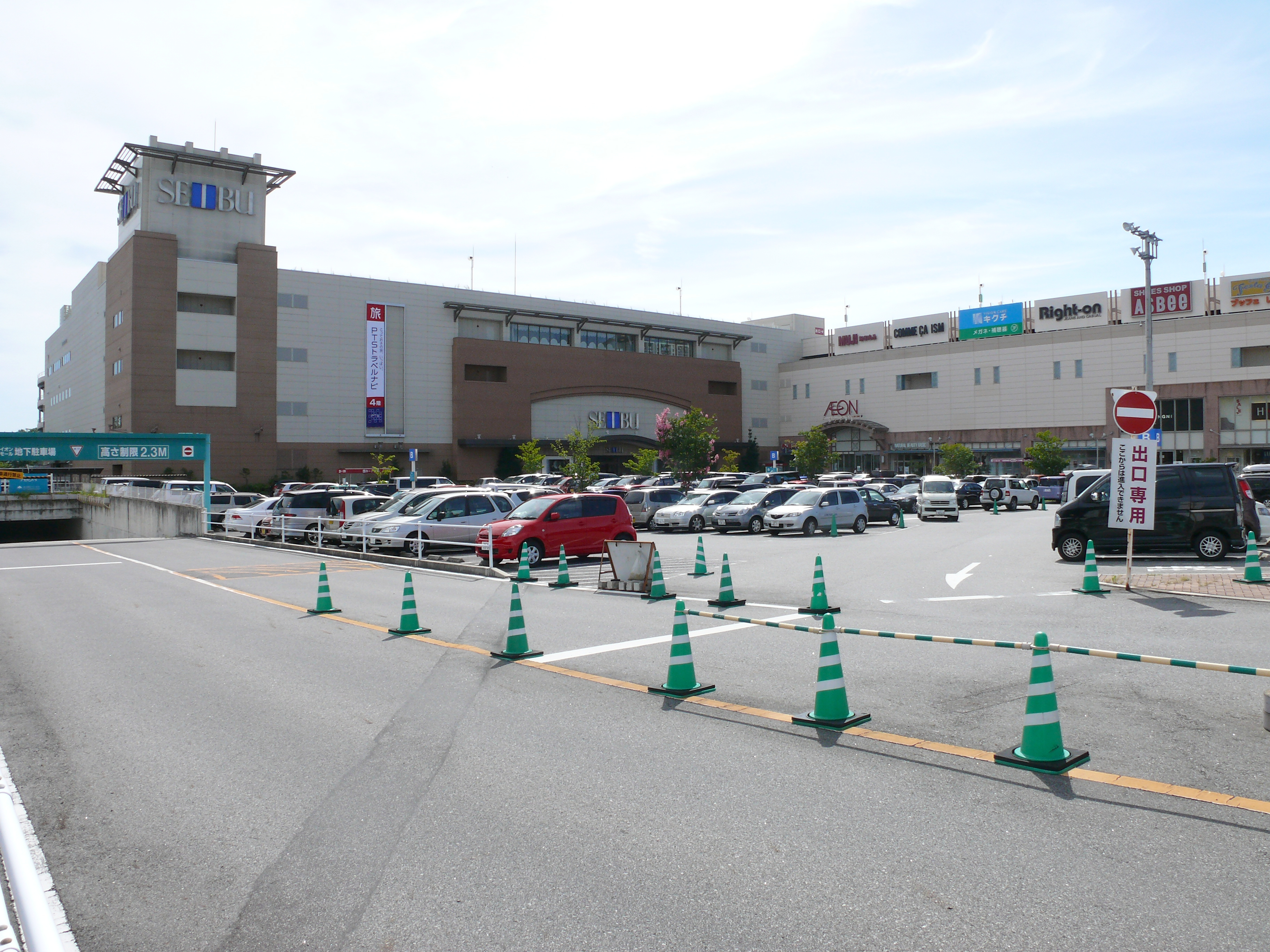 AEON Okazaki Shopping Center.